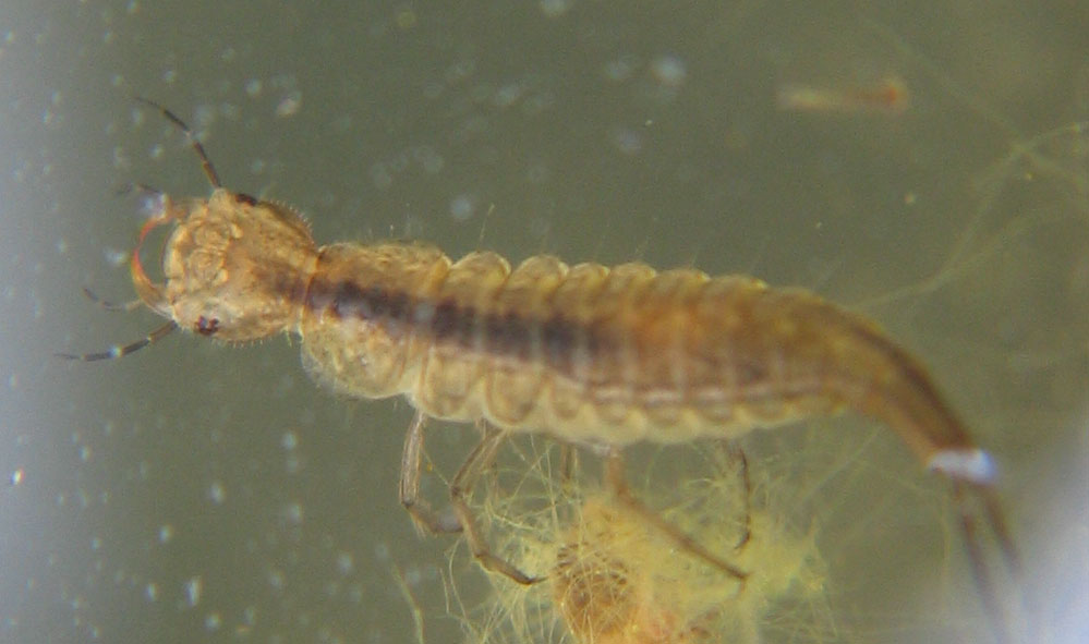 Larva of carnivore water beetle, Dytiscidae sp.